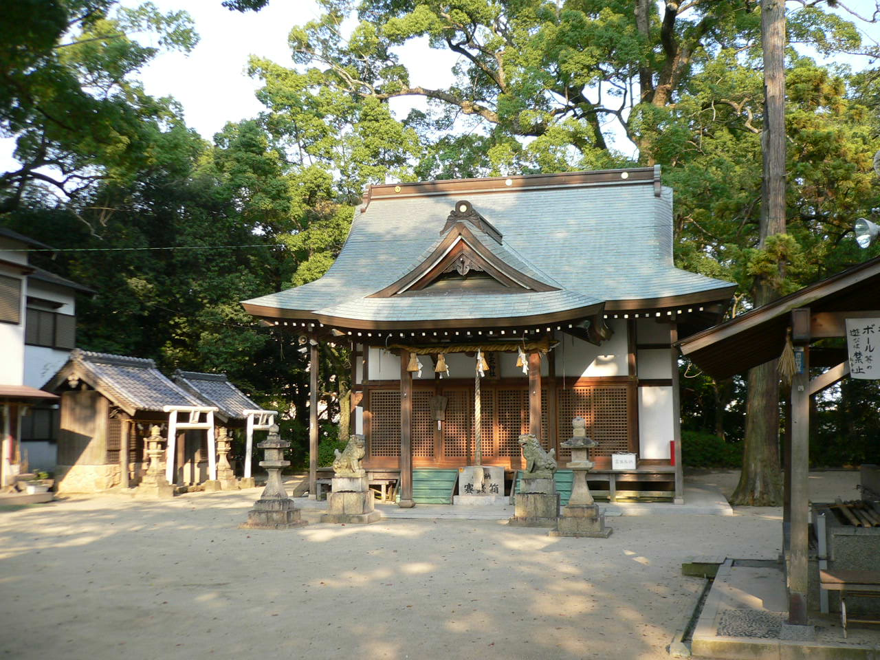 Namaze-Kotai Jinjya (Shrine) at Hyōgo Prefecture in Japan.